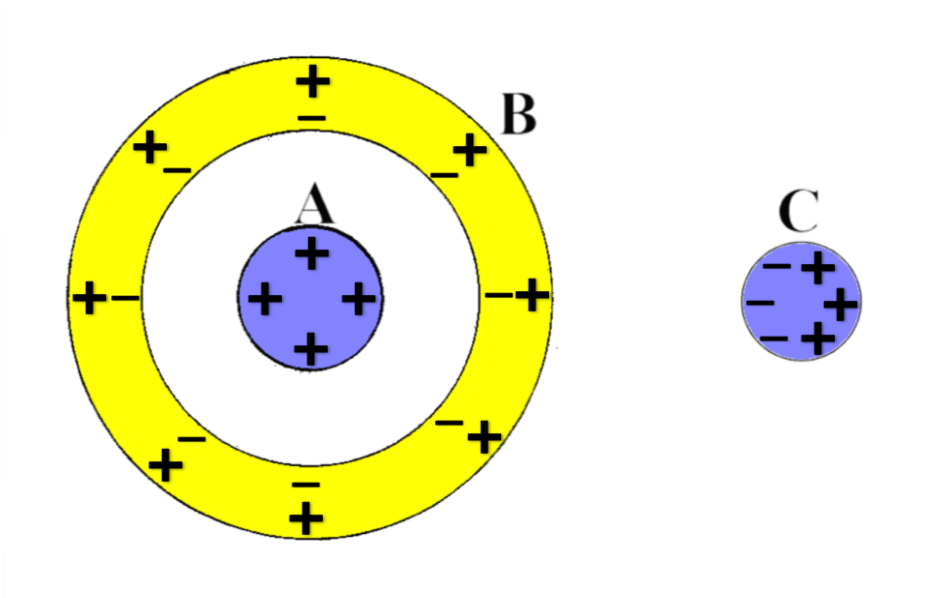 A diagram of electrostatic induction.